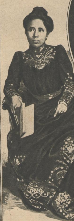 Ranavalona III